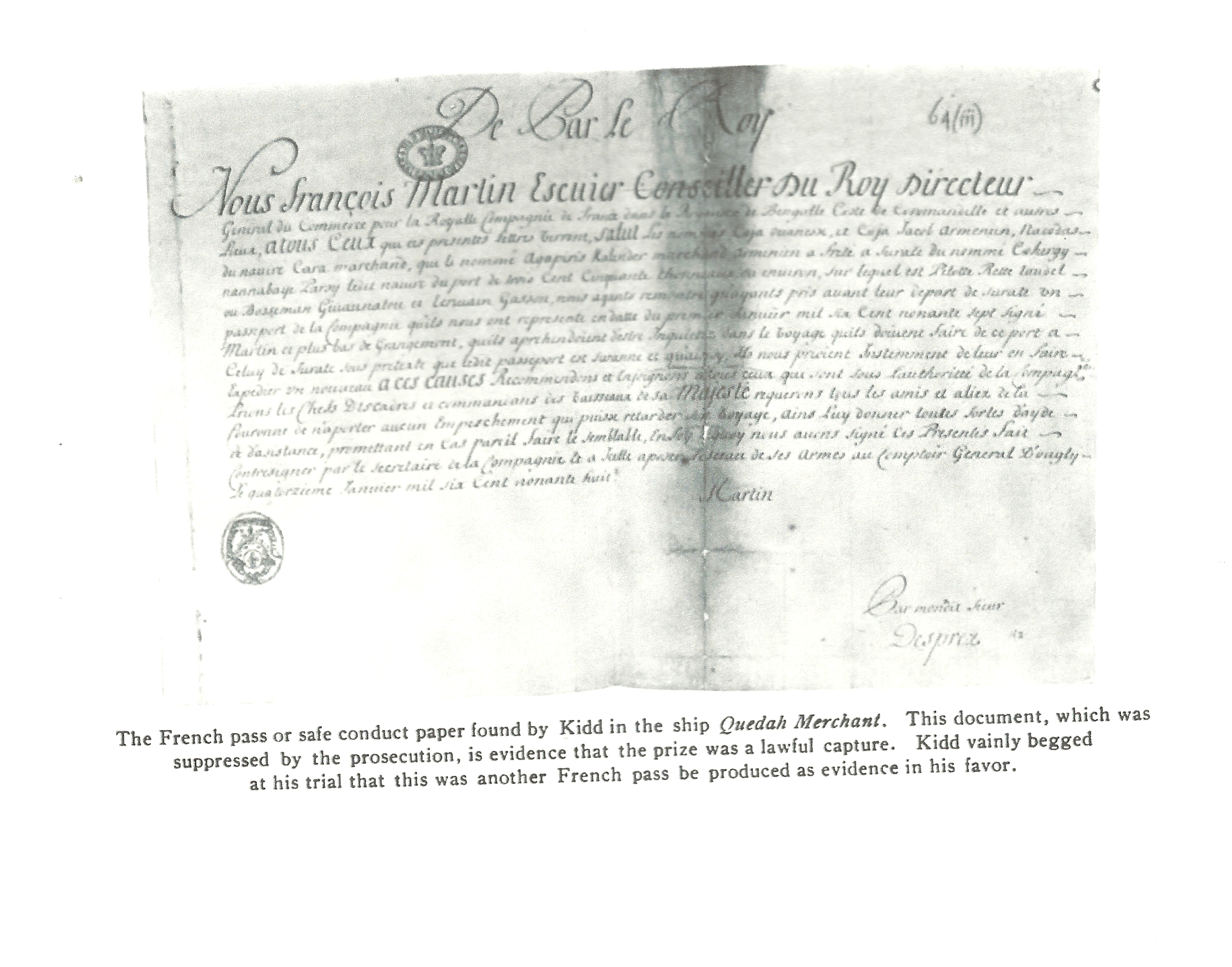 The Book of Buried Treasure: Being a True History of the Gold, Jewels, and ...